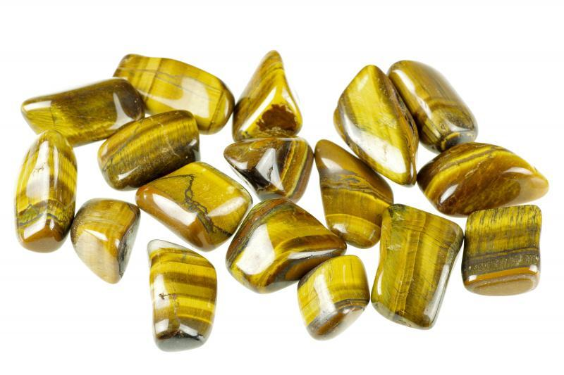 Tiger eye tumbled stone mineral